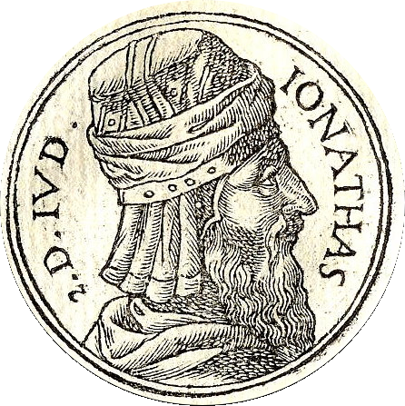 Jonathan Maccabaeus